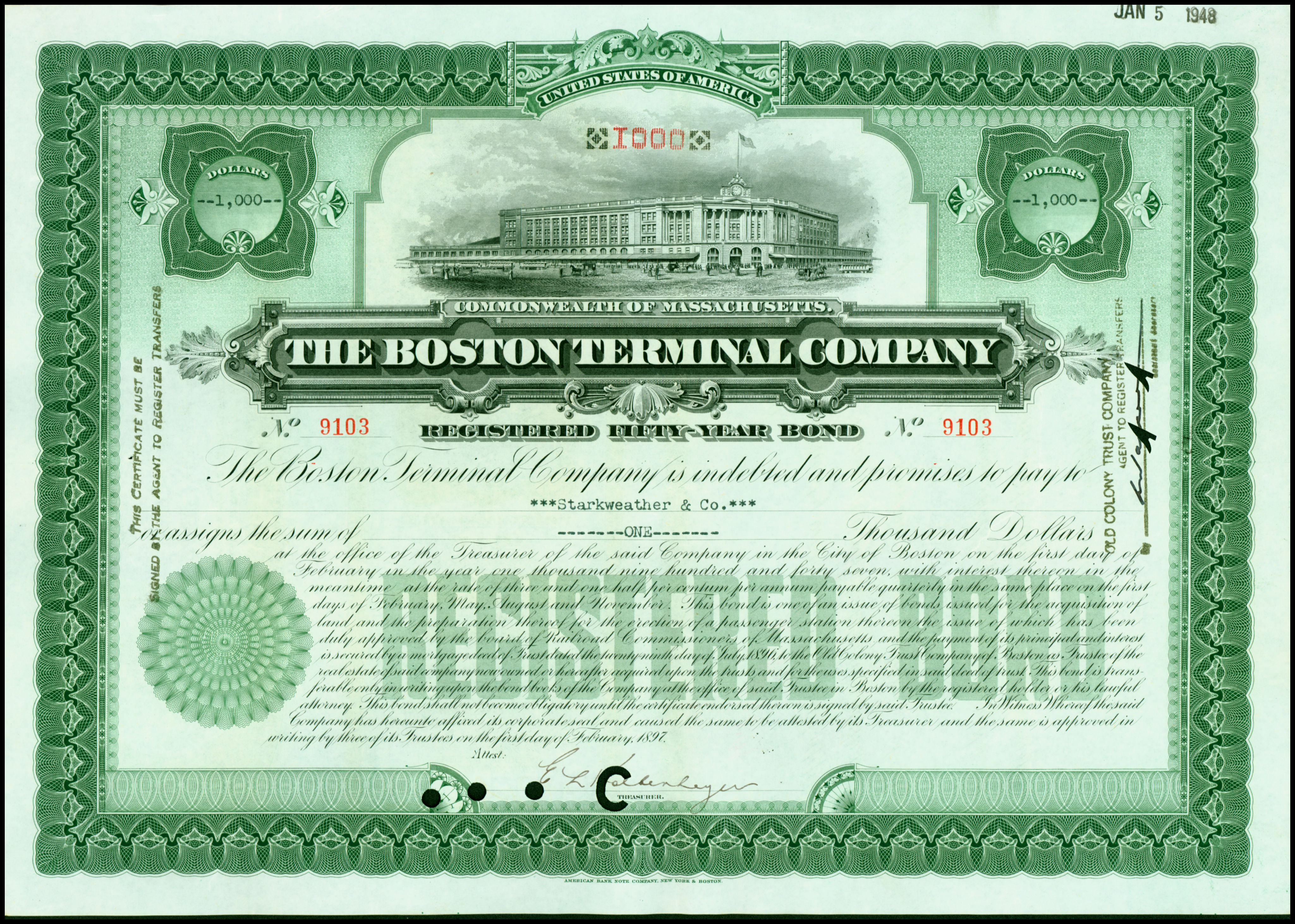 Bond of the Boston Terminal Company, issued 1. February 1897